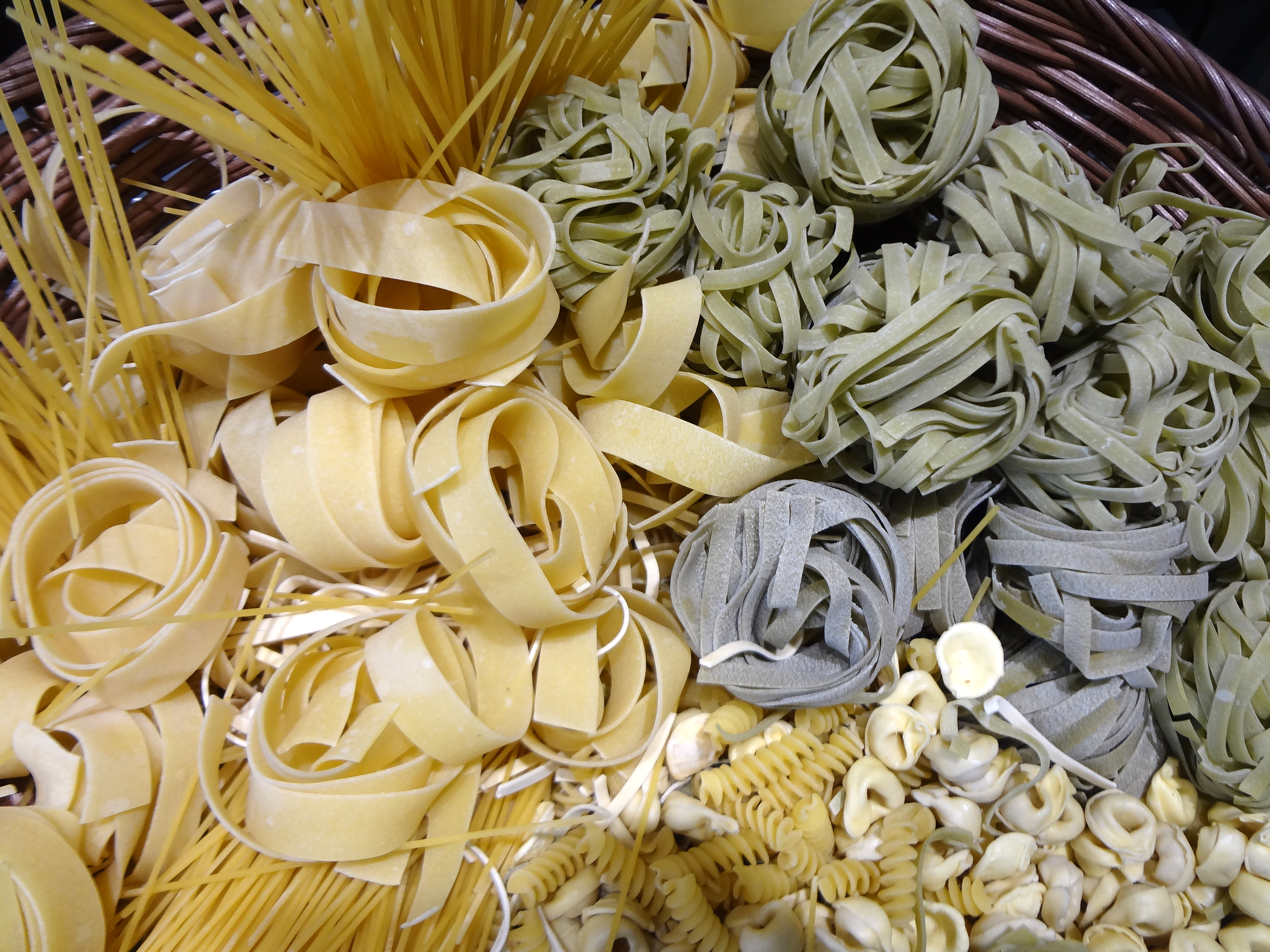 Amazing Pasta, by David Adam Kess Photography by David Adam Kess